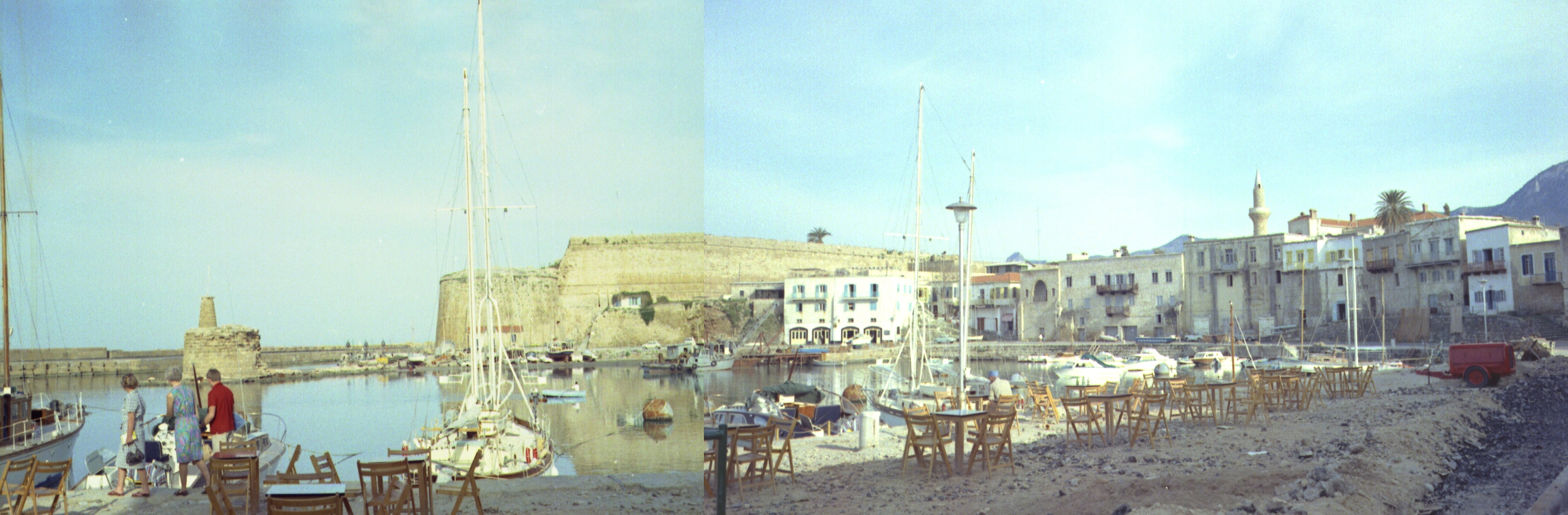 Kyrenia Harbour in the spring of 1967. This is two photos taken at the same time stitched together.